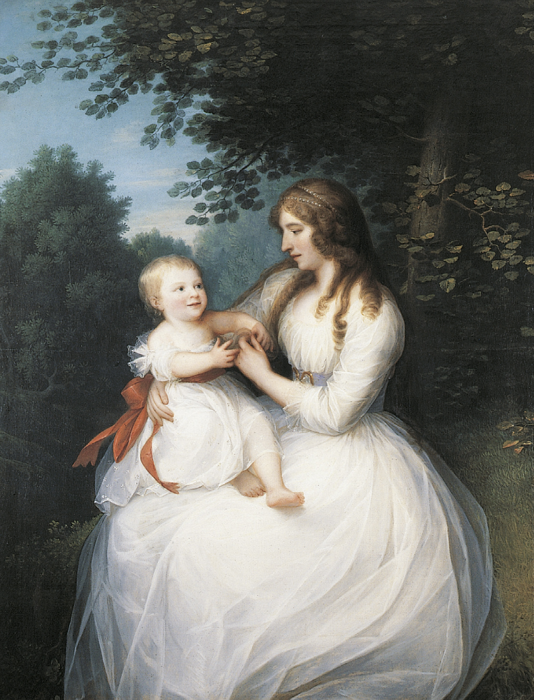 Portrait of Friederike Brun with her daughter Charlotte sitting on her lap